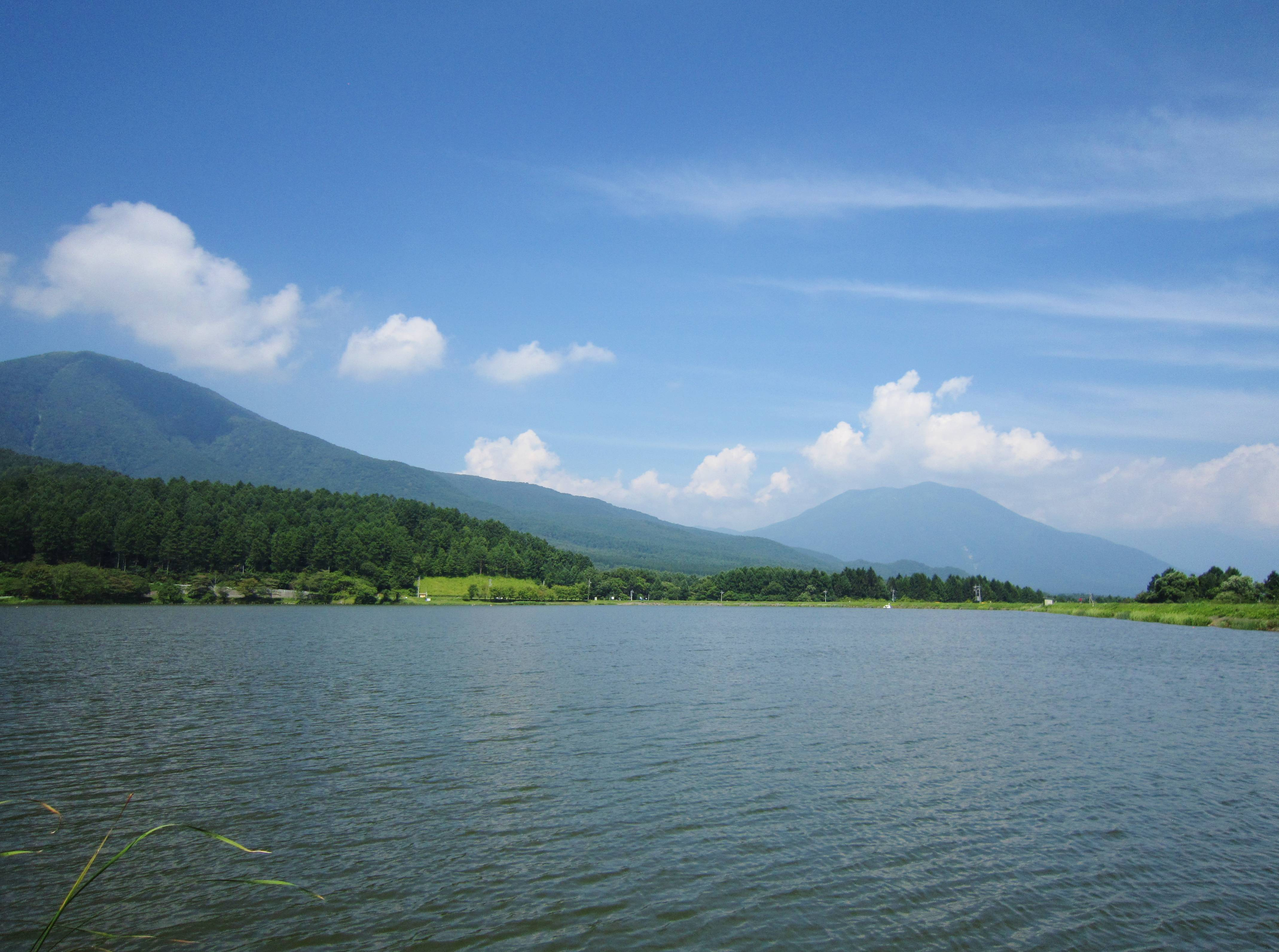 Lake Reisenji and Mount Iizuna (left) and Mount Kurohime (background).